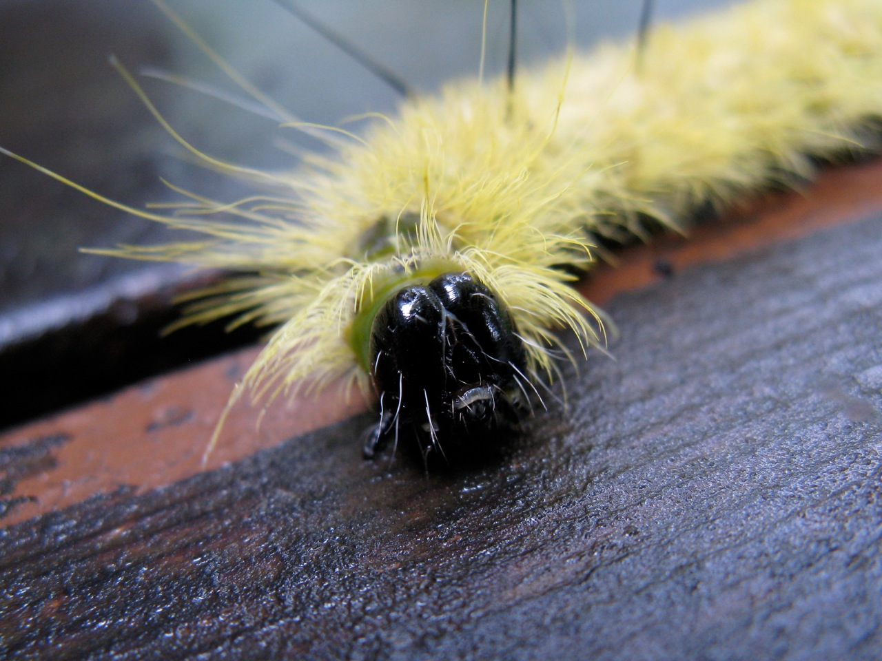 Acronicta americana, Toronto, Canada